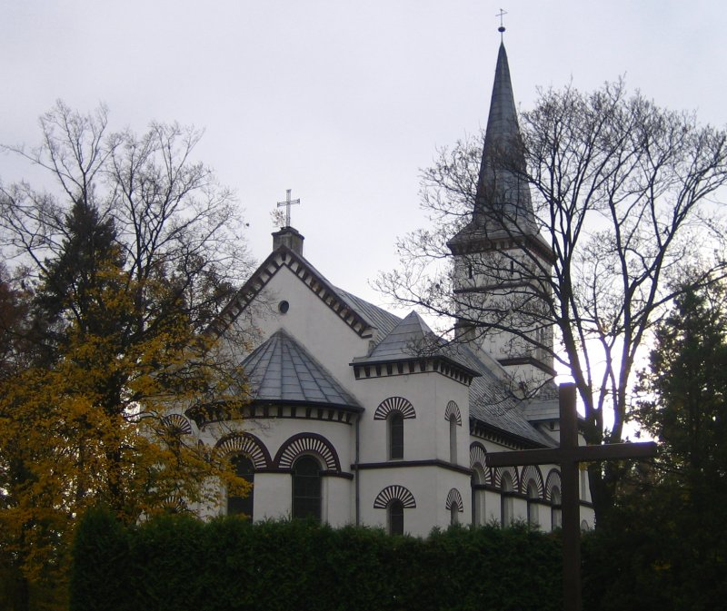 Church in Ozimek, Silesia, PL